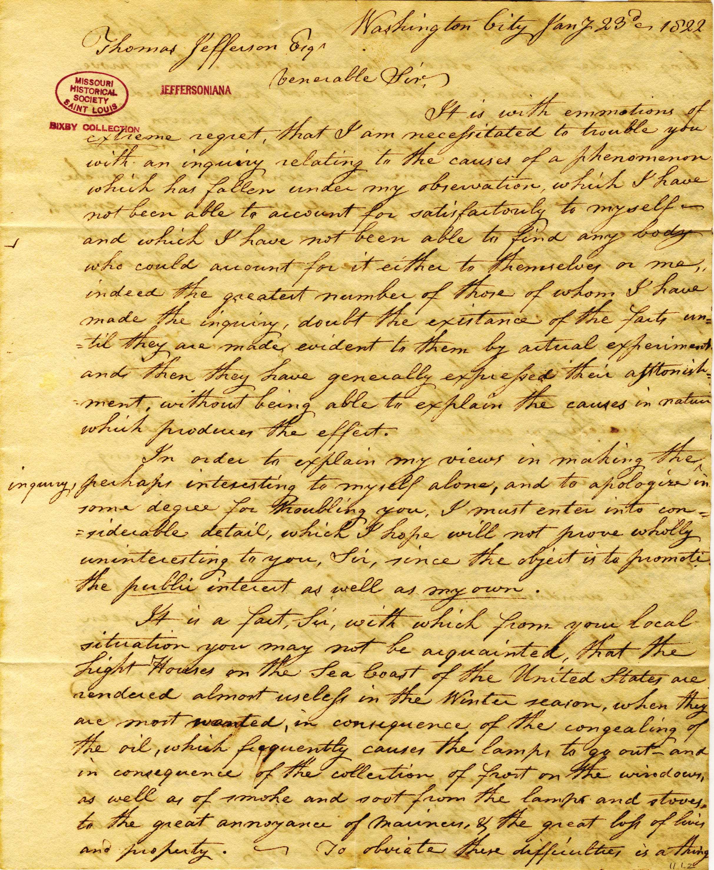 States that lighthouses are rendered almost useless in the winter when they are needed most due to the congealing of the oil which causes the lights to go out. Melville has an invention "by which the oil is kept warm by the heat communicated to it from the flame of the same lamp."Title: Letter signed David Melville, Washington City, to Thomas Jefferson, Monticello, Virginia, January 23, 1822